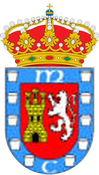 Coat_Milmarcos